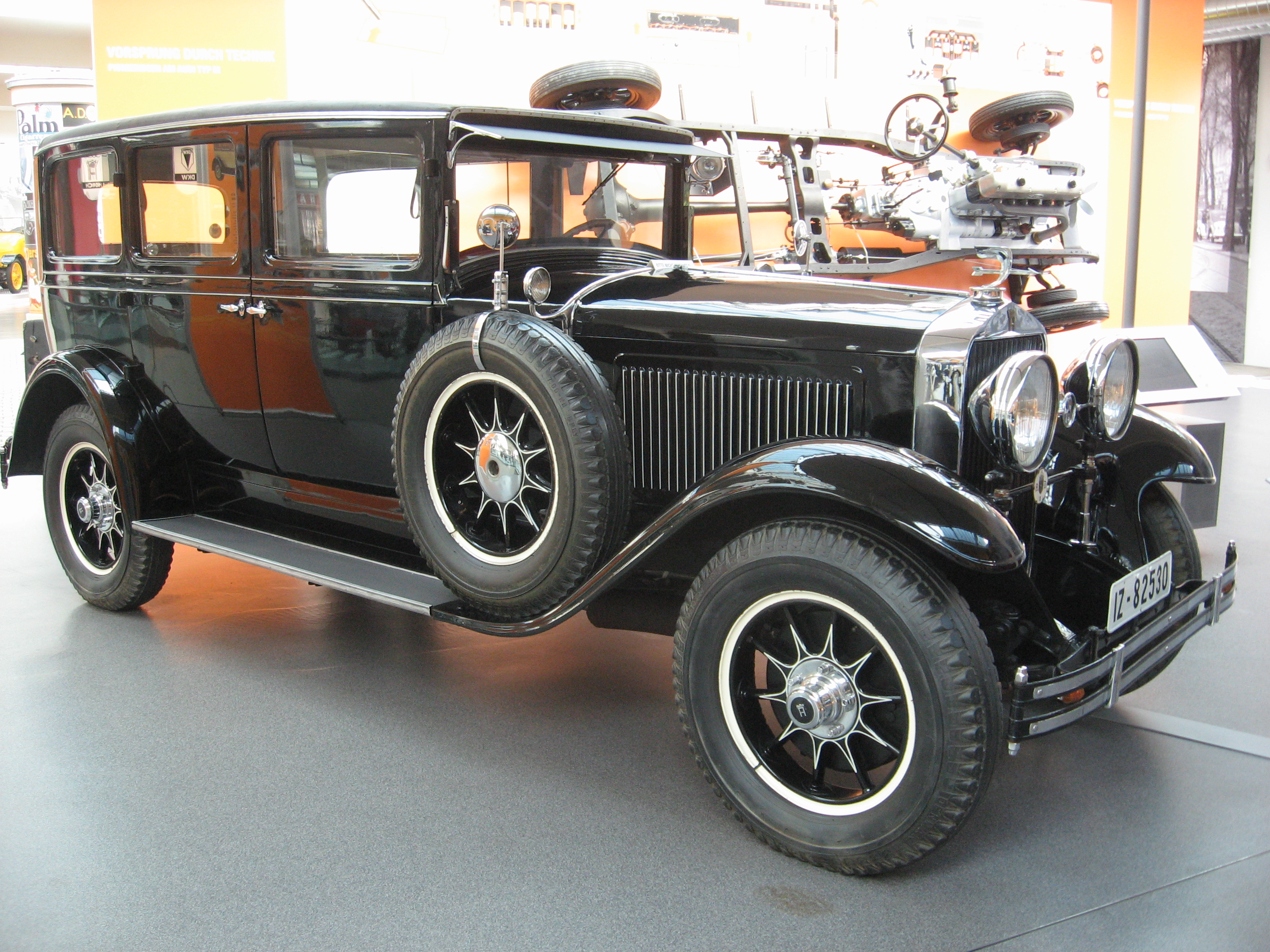 Subject: Horch 350 Author: Luc106 Date:June 12th, 2011 Place/Country: Horch Museum, Zwickau (Germany) I release all rights in the public domain.